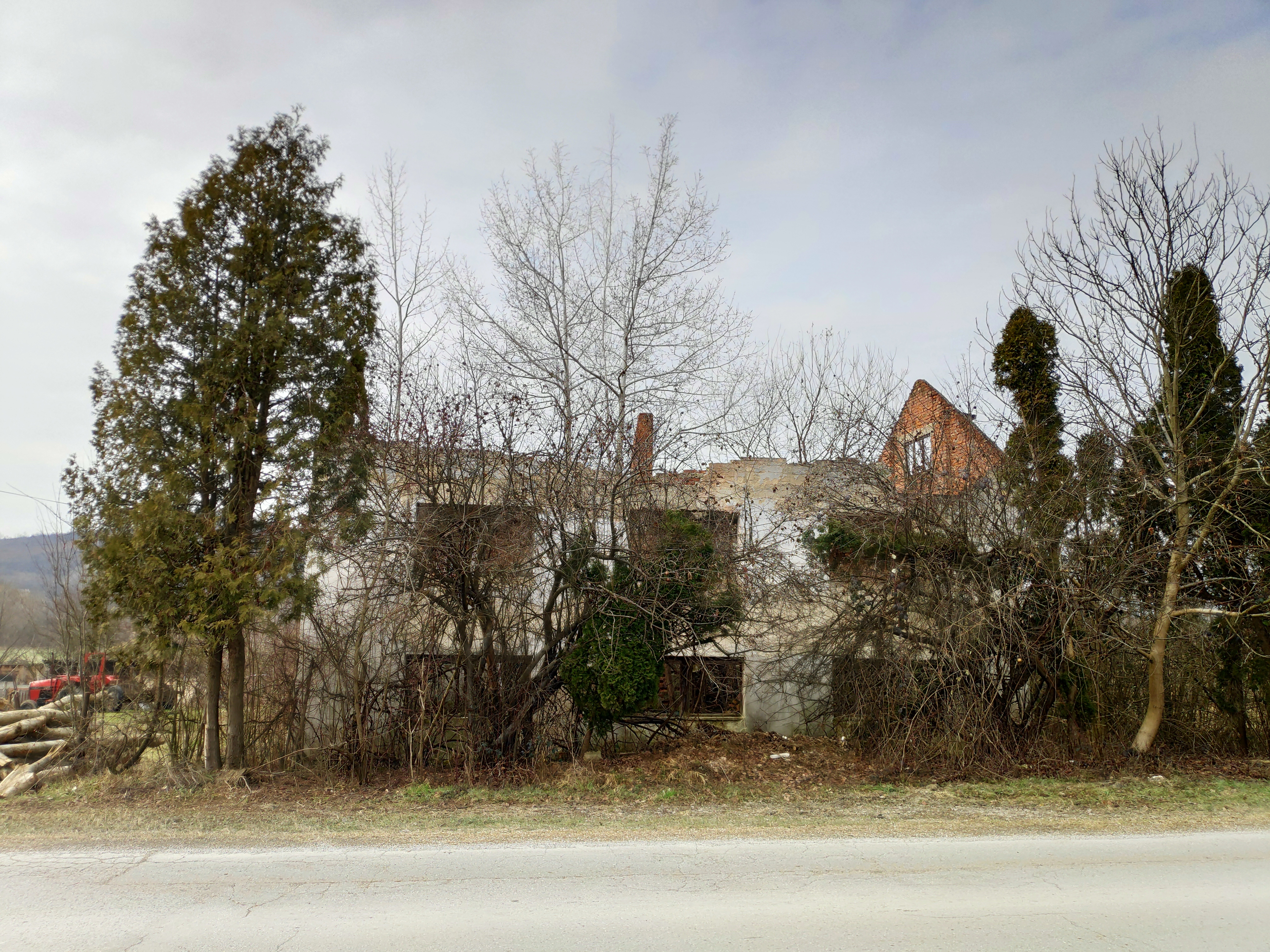 Vojnić (destroyed Serbian house) in Croatian operation Oluja (1995)